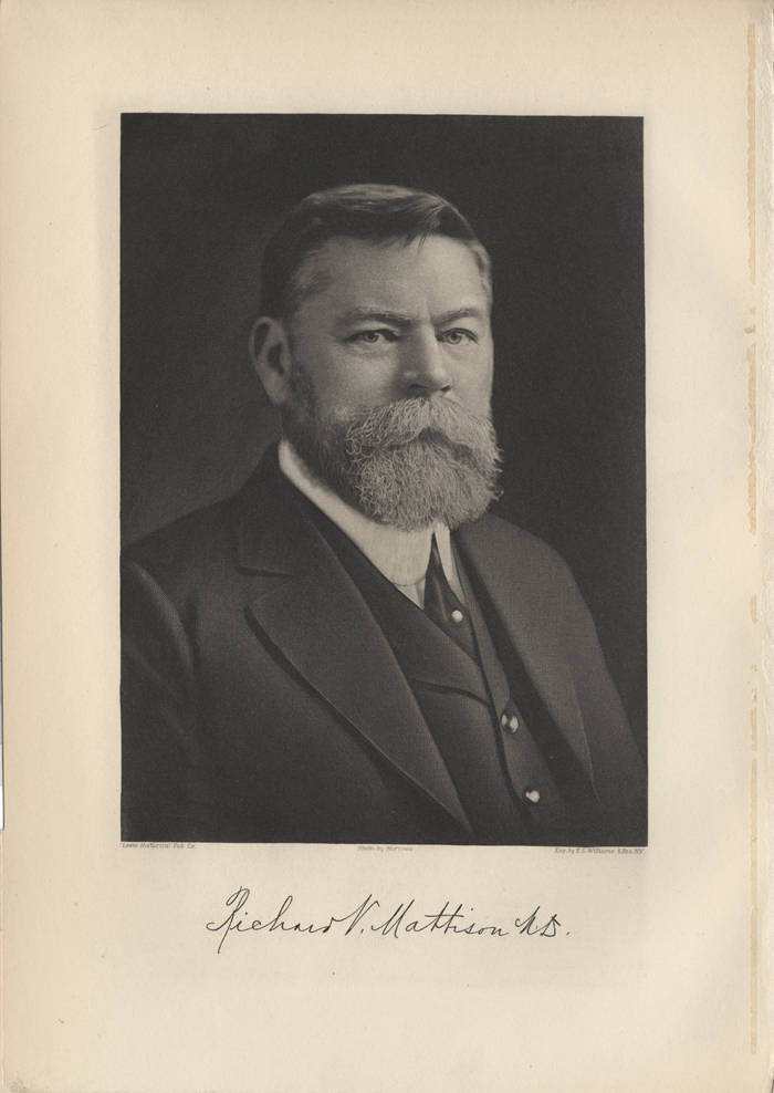 Portrait of Richard Van Zeelust Mattison, facing page 168 of the Encyclopedia of Pennsylvania Biography, volume 11. New York: Lewis historical publishing company, 1914. This is a relatively low-resolution image, from a scanned online edition of a public domain book at I can get access to an original copy, for scanning purposes, I will upload a better one. At this time, this is the best available.